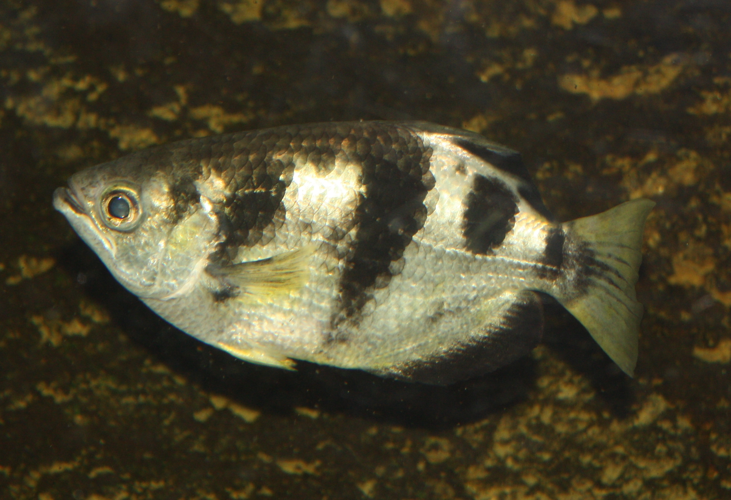 Archer Fish (Toxotes jaculatrix) at the Louisville Zoo